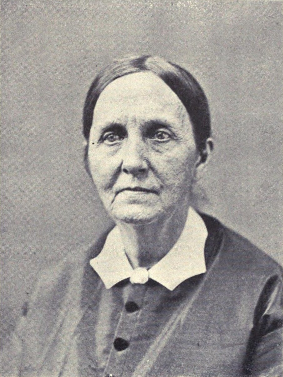 Mrs. Rebecca Howard Hitchcock (December 2, 1808 - April 10, 1890), wife of missionary to Hawaii Harvey Rexford Hitchcock.